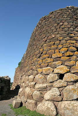 Details of wall. Own work. 3.10.2006